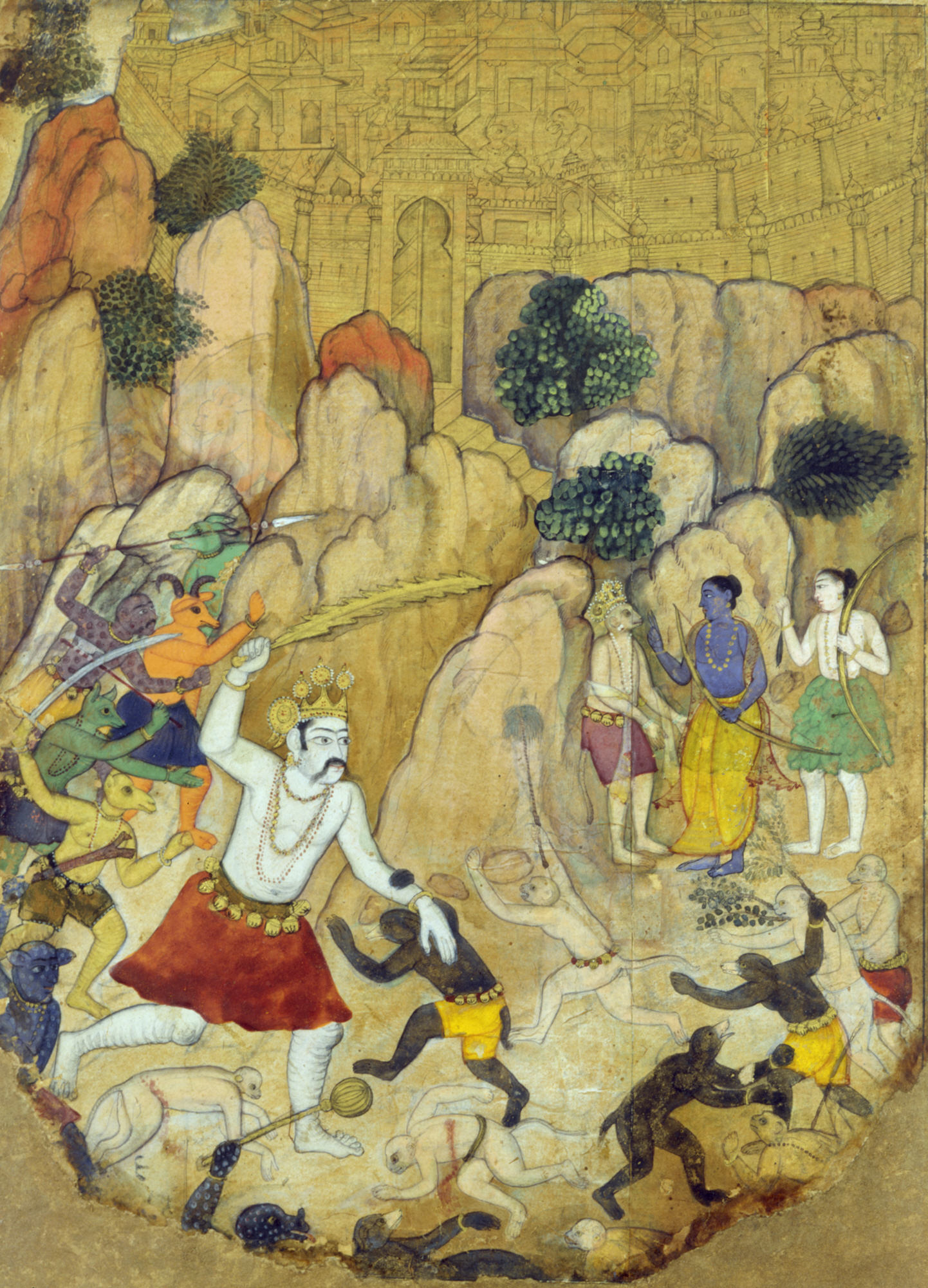 Atikaya, a son of Ravana, was one of the most powerful of the many demons that fought the bear and monkey armies outside the walls of the golden palace of Lanka. Ultimately, he was slain by Lakshmana, who can be seen conferring with Rama and Hanuman in the middle right. Although the presentation of this demon differs from the description of Atikaya in the Ramayana, an inscription on the reverse of the folio identifies him. This painting was likely commissioned by a patron outside the Mughal court at the height of Akbar's reign. The style clearly relates to metropolitan Mughal workshop productionin terms of the palette and the treatment of landscape elements and urban vista.